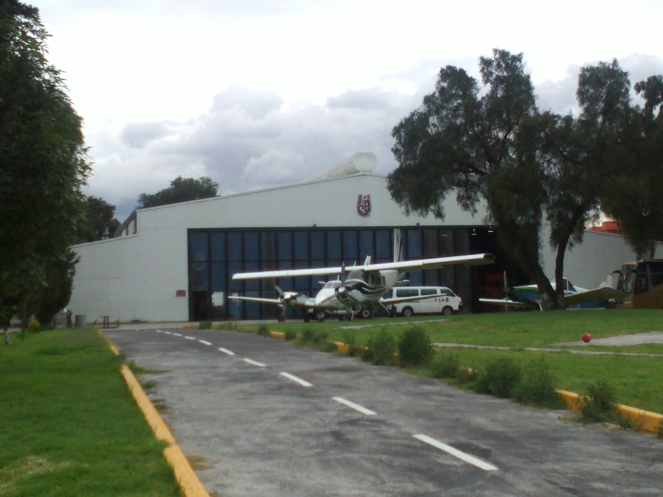 Hagar of the ESIME